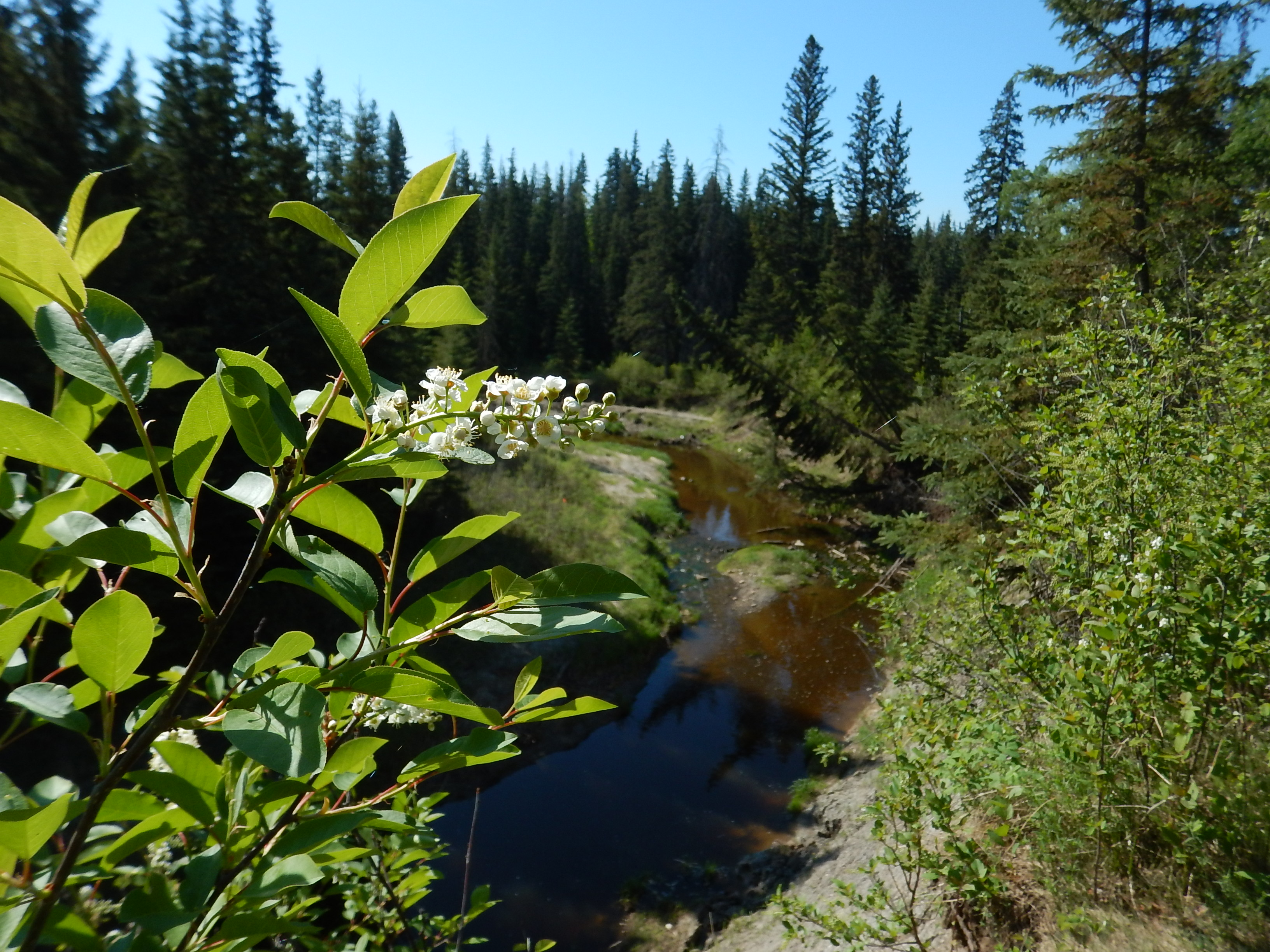 Blackmud Creek with flowering shrub